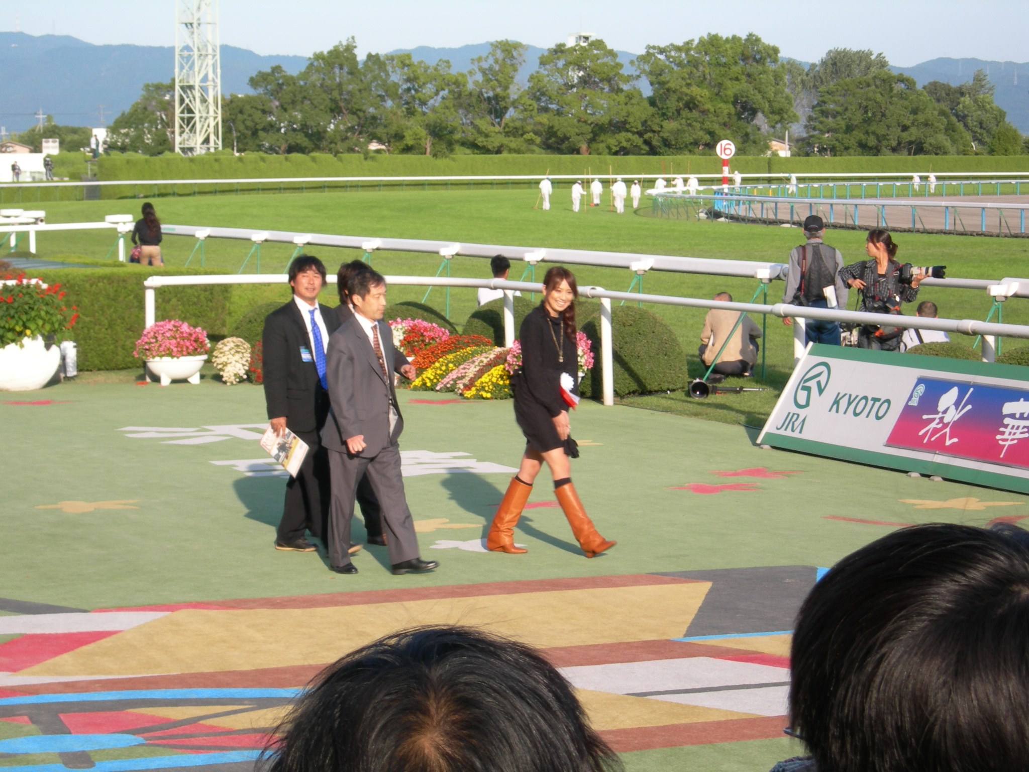 Aki "DEATH NOTE" Higashihara (Japanese talent and Model. Wife of Kosei Inoue) in Kyoto Racecourse. 東原「デスノート」亜希に祝福されたカワカミプリンセスの次走については、説明は不要。